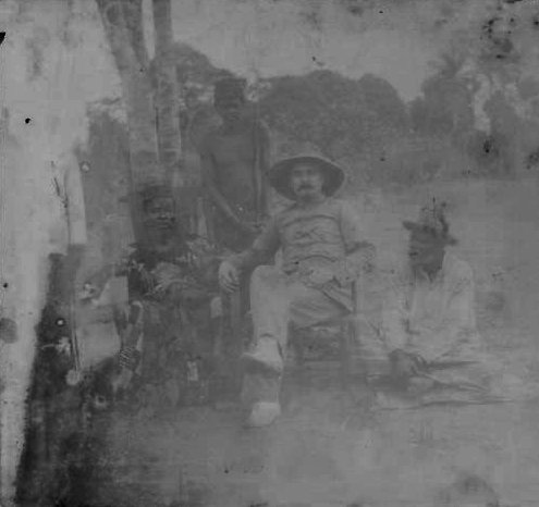 Visit to the Maloango (King of Loango) with his Prime Minister and Guard